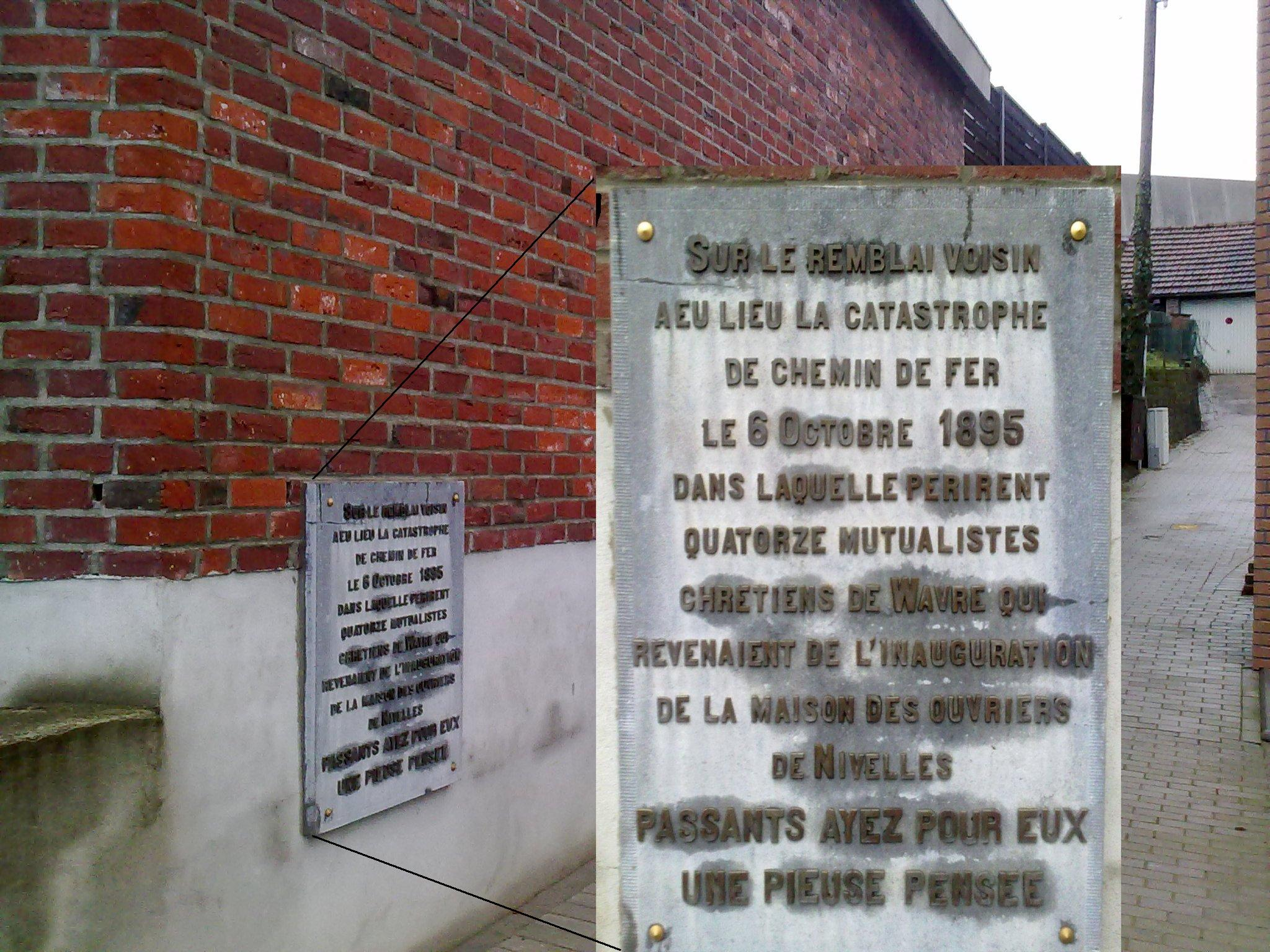 Memorial plaque to the 14 deceased of the 1895 train accident in Ottignies (Brabant Wallon) Belgium. Location : rue du Monument Nr 11.